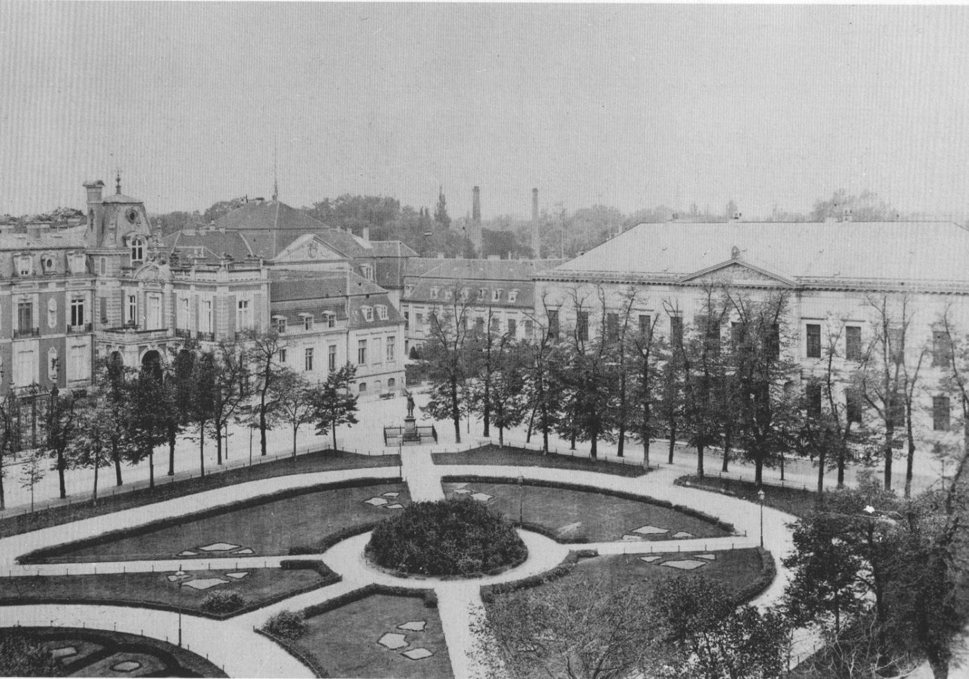 Arial view of Wilhelmplatz in Berlin, before 1906 (when the building of a subway station caused a remodelling of the square).